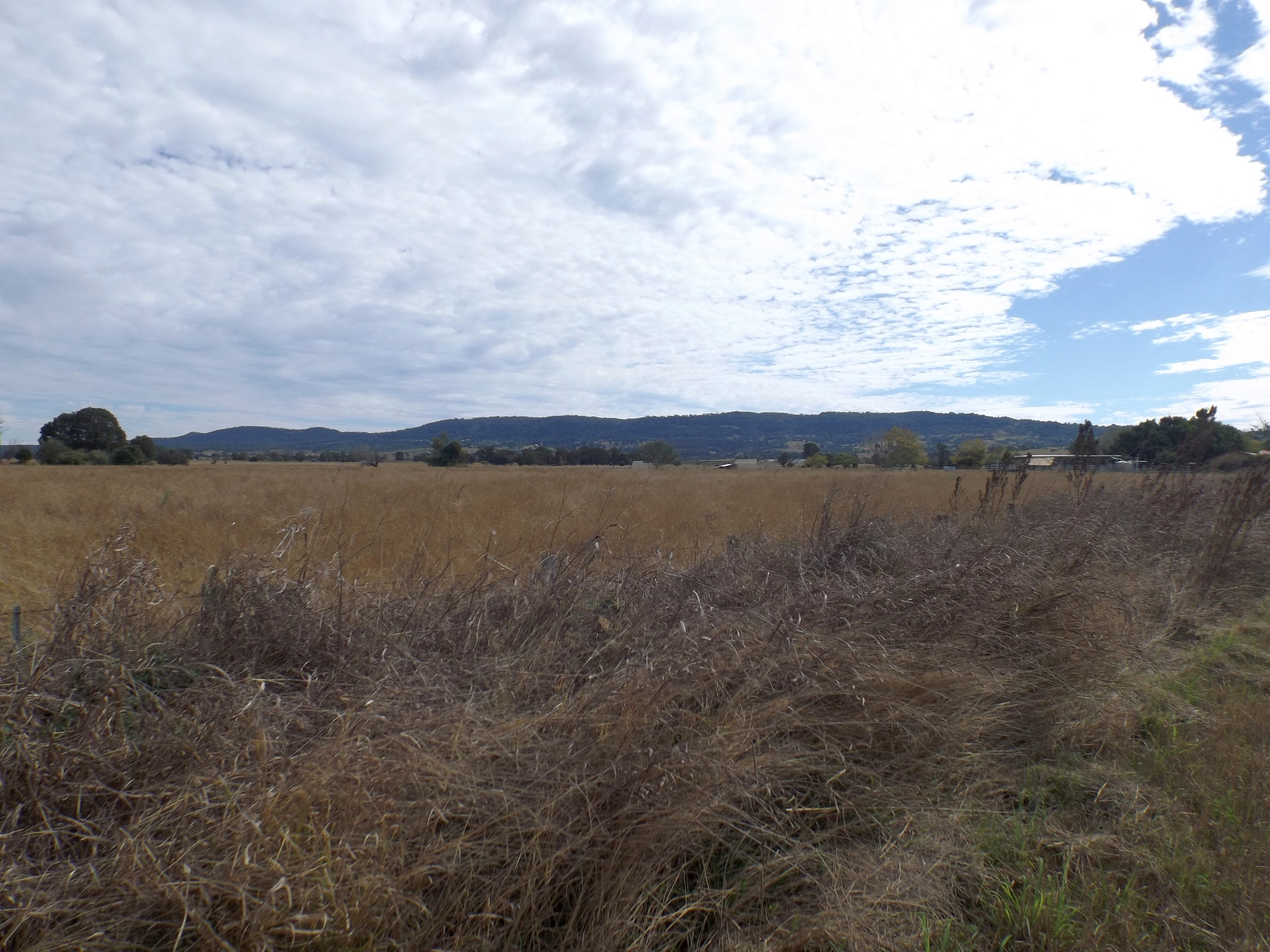 Photo of farms along Perrins Road with the Little Liverpool Range in the background at Lanefield and Ashwell in Ipswich, Queensland, Australia. Along the top of the range is The Bluff.